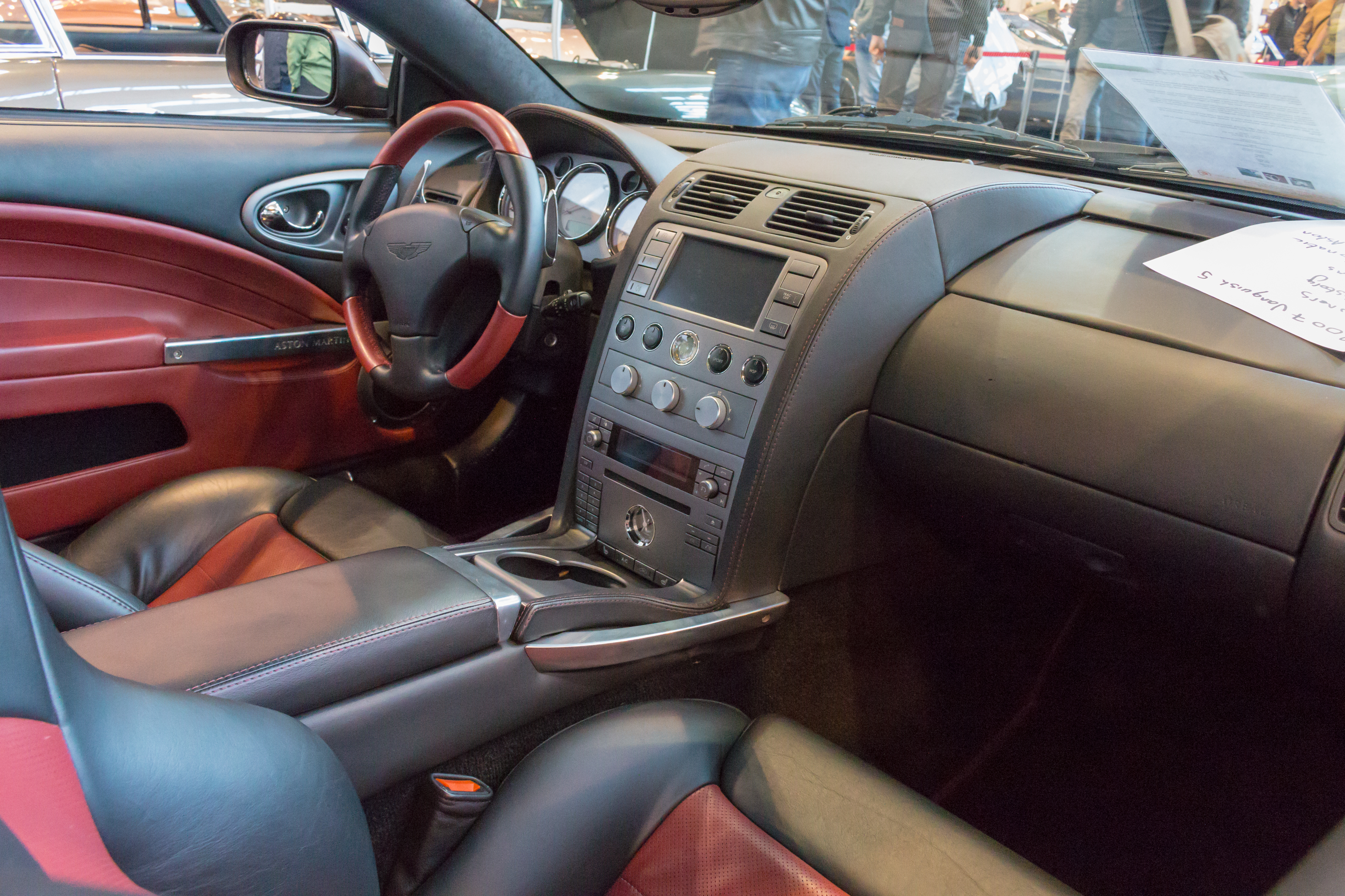 Techno Classica 2018, Essen